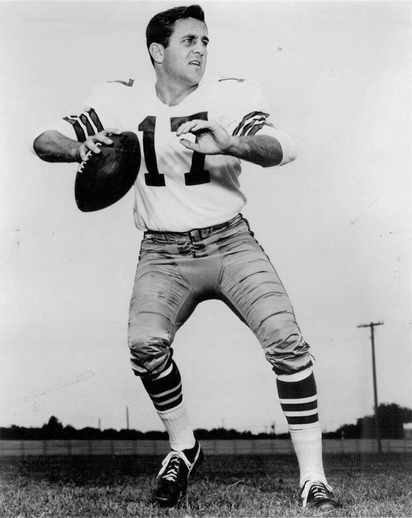 American football player Don Meredith during his tenure on the Dallas Cowboys.